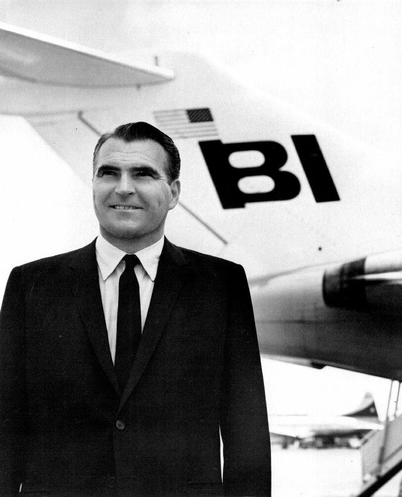 Braniff file photo of Mr. Lawrence was in 1965. He is seen with one of the new Boeing 727s he introduced into the Braniff fleet that would become the workhorse of the flamboyant Texas carrier.